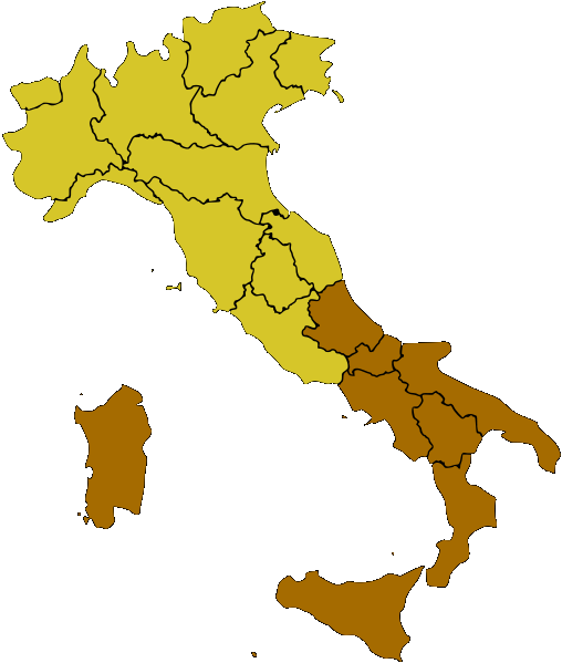 Southern Italy and Islands